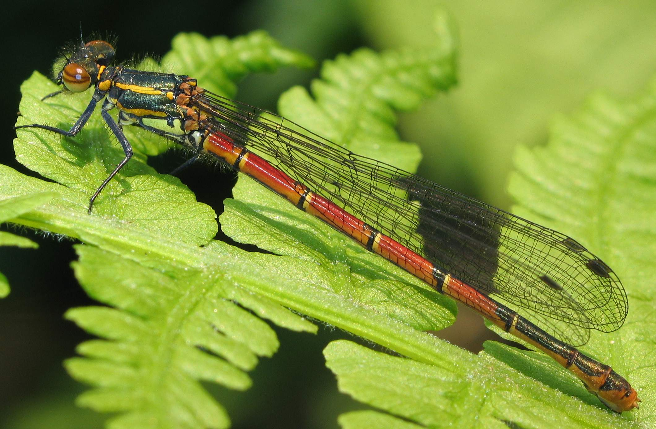 Author: soebe Date: May 7, 2006 Location: Hamburg, Northern Germany Taken by Soebe in Northern Germany and released under GNU FDL.